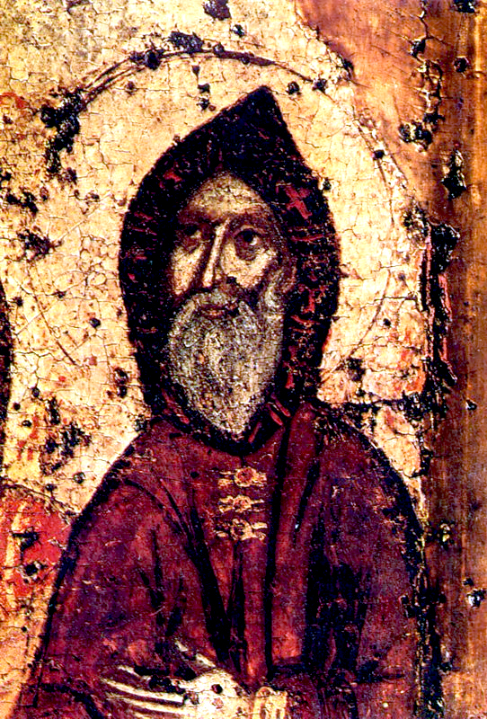 St. Antonij Pecherskij